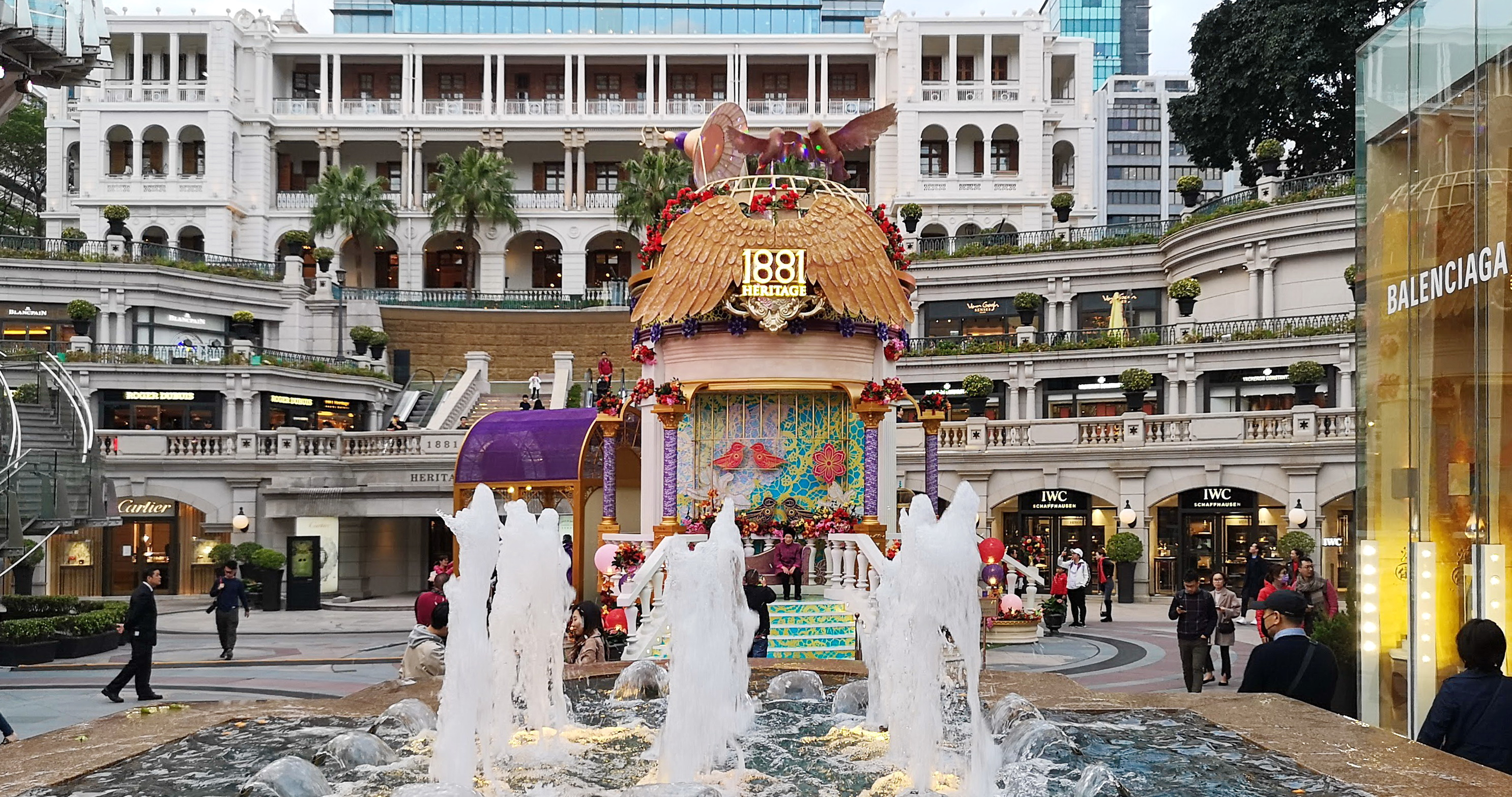 The front entrance of 1881 Heritage